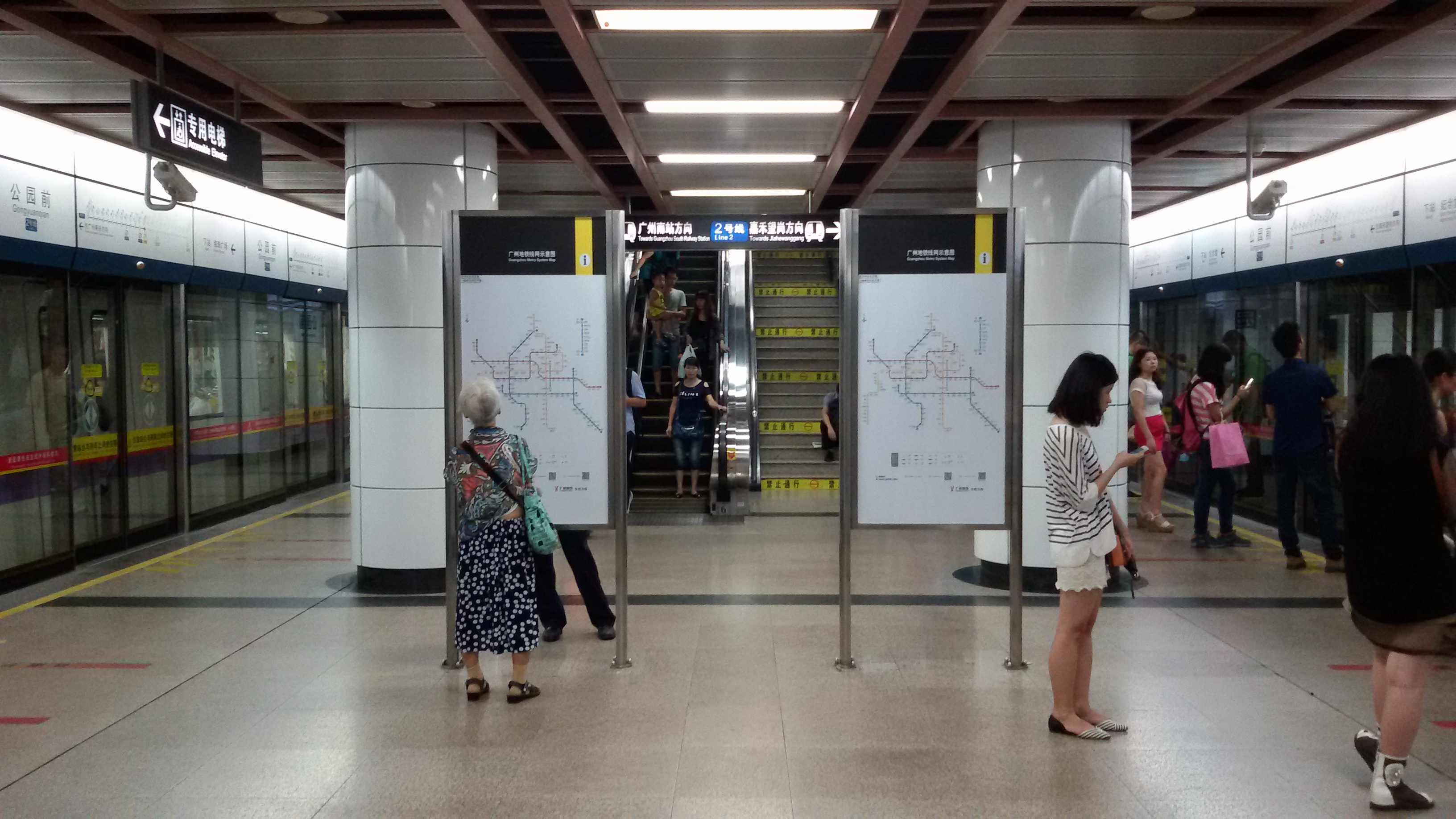 Platform for Line 2 in Gongyuanqian Station, Guangzhou Metro